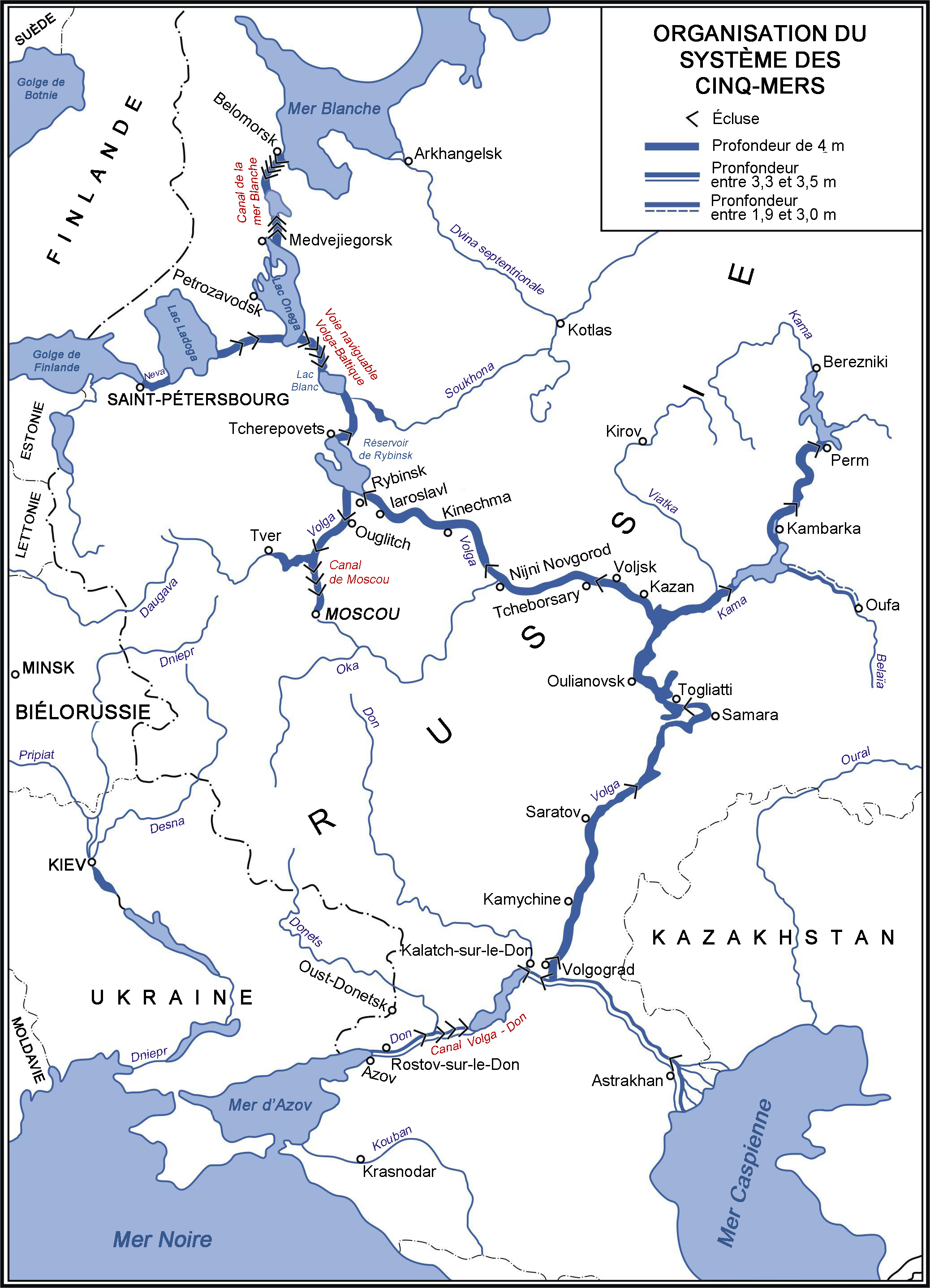 Unified Deep Water System of European Russia (Map)